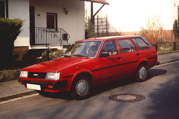 1983 Toyota Corolla DX Wagon KE70